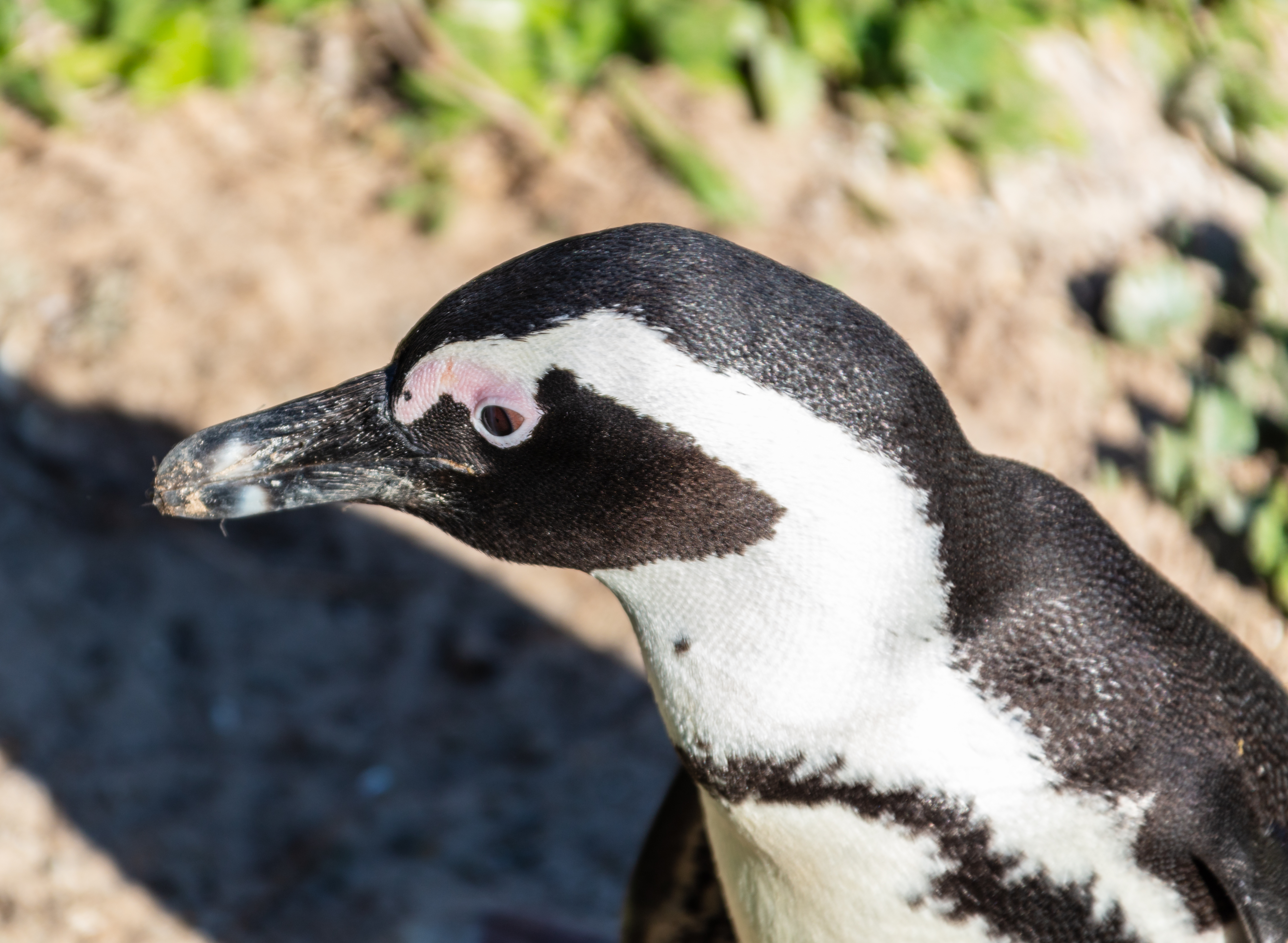 African penguin (Spheniscus demersus), Boulders Beach, Simon's Town, South Africa